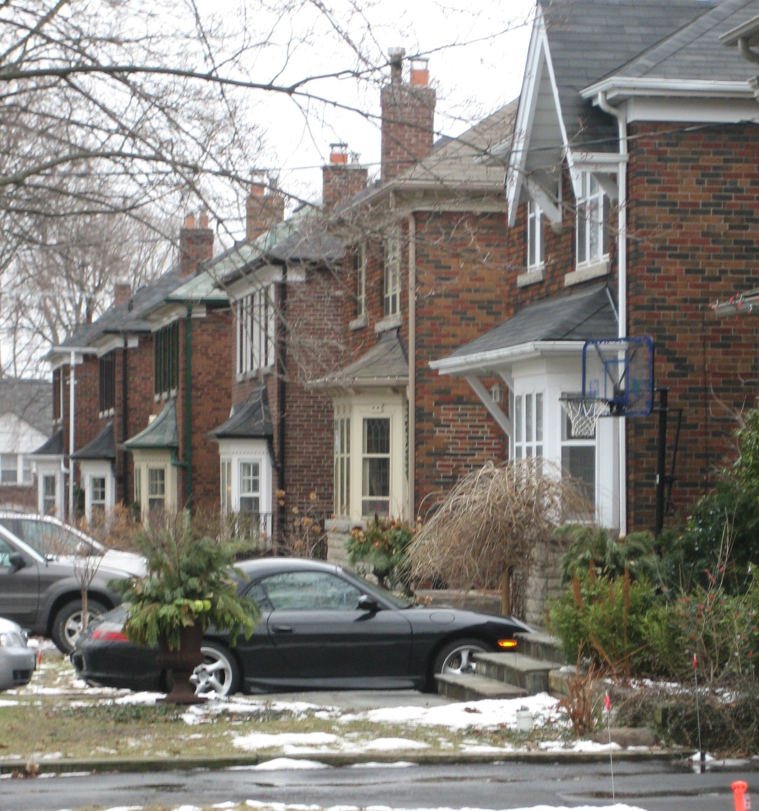 Houses in Leaside.